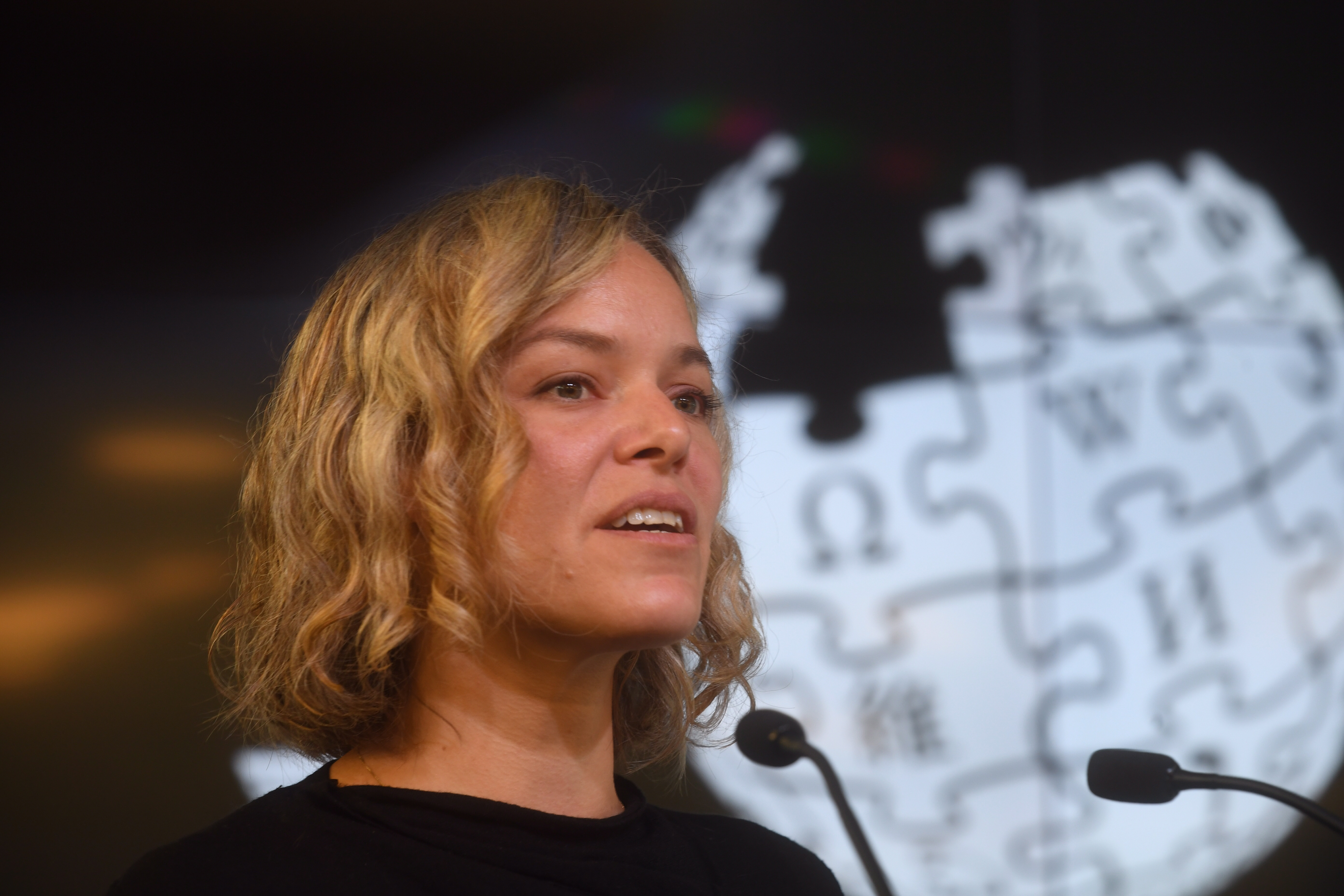 2019-04-05, Donostia. Wikimedia kongresua. Catherine Maher-en agerraldia. 05-04-2019, San Sebastián. Congreso de Wikimedia. Intervención de Catherine Maher.